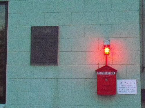 Call box on the Fire Station in Soquel, California. To the left is a plaque honoring Charlie Parkhurst.